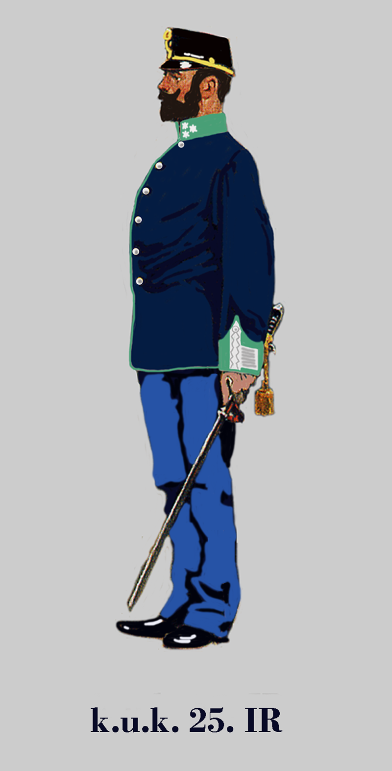 Captain of the Austria-Hungarian (k.u.k.). 25th hungarian Infantry Regiment in Service dress 1914